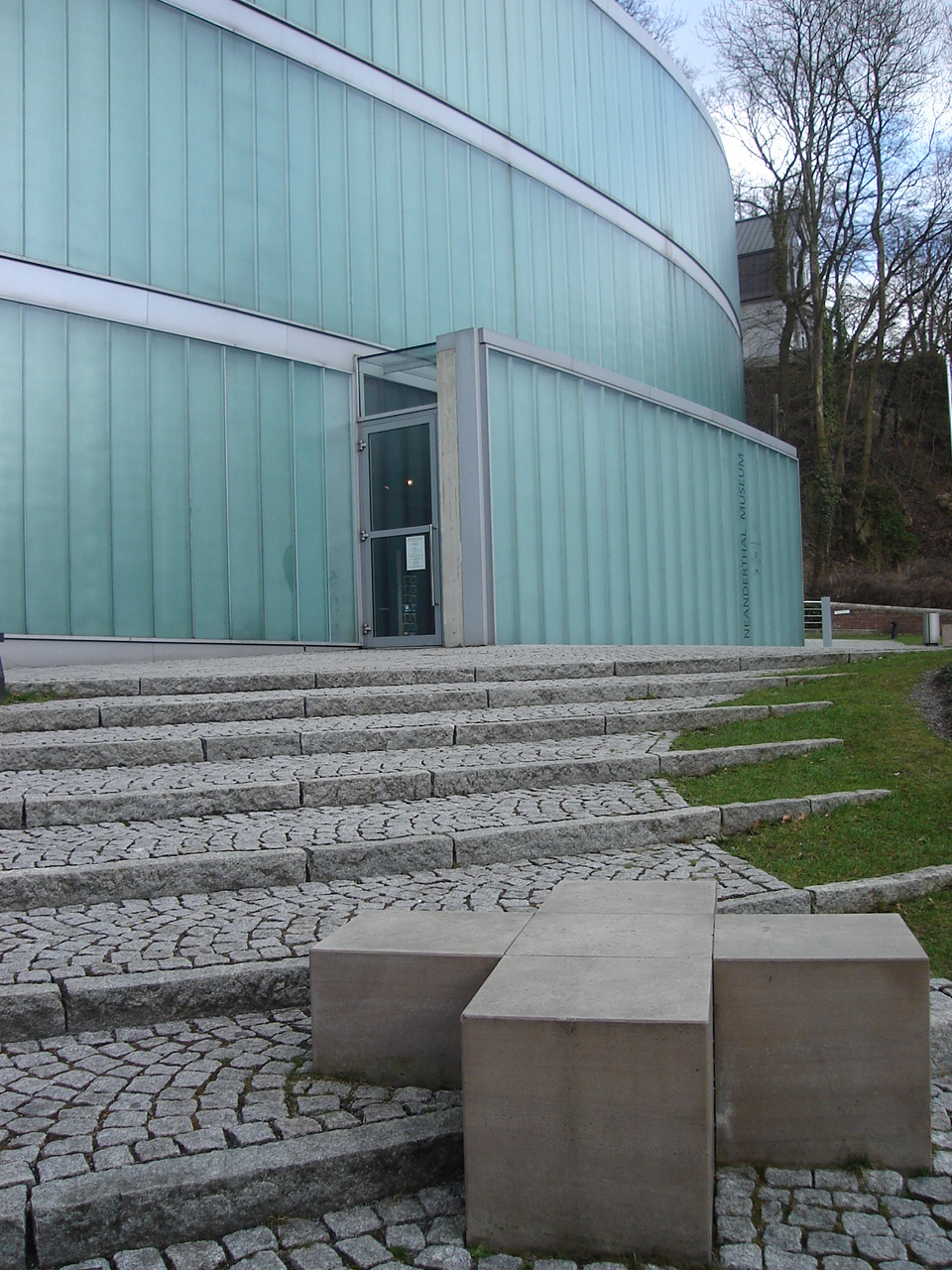 View from the entrance of the Neanderthal Museum, Neanderthal (Mettmann)